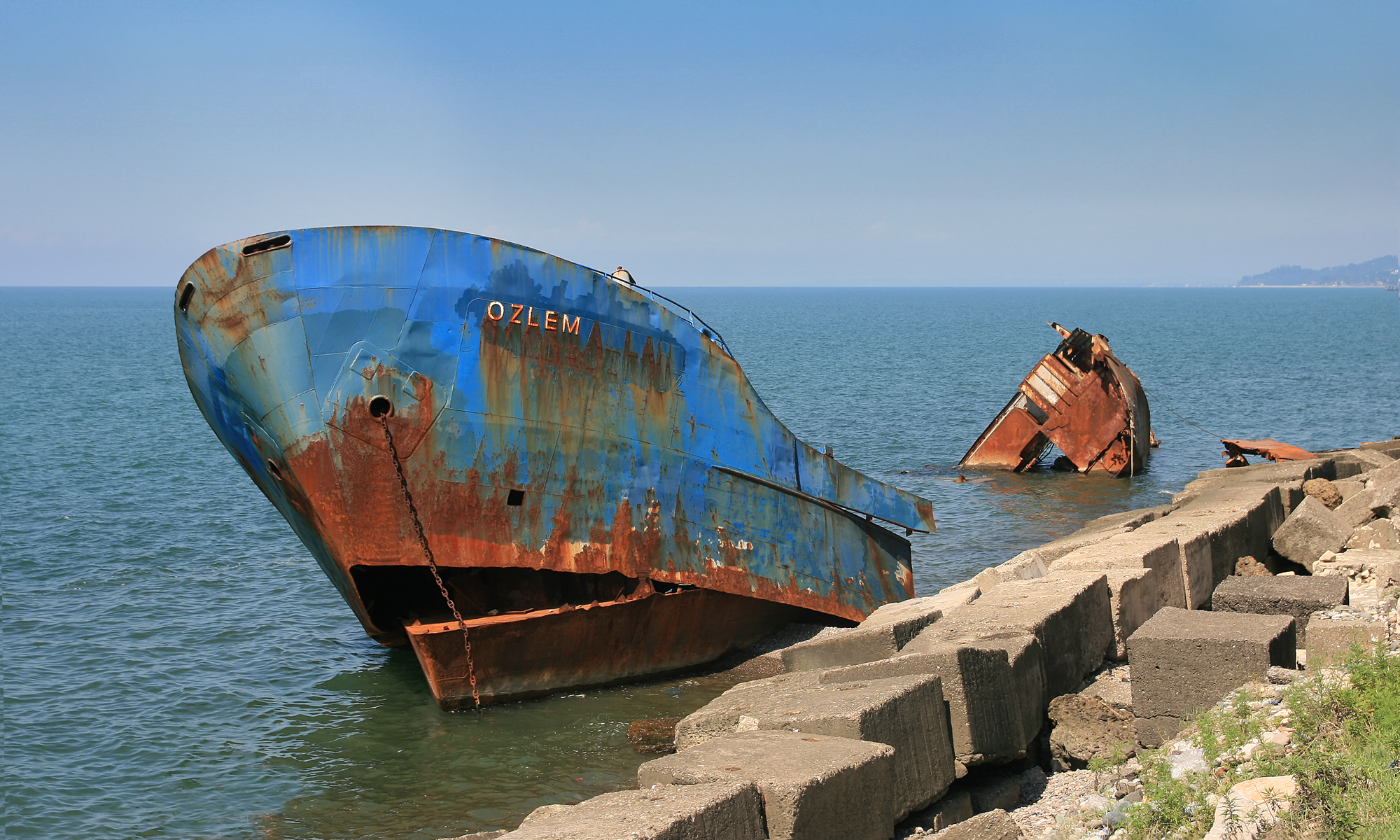 Description: The Shipwreck Ozlem at Black Sea coast laying north of Batumi, Georgia